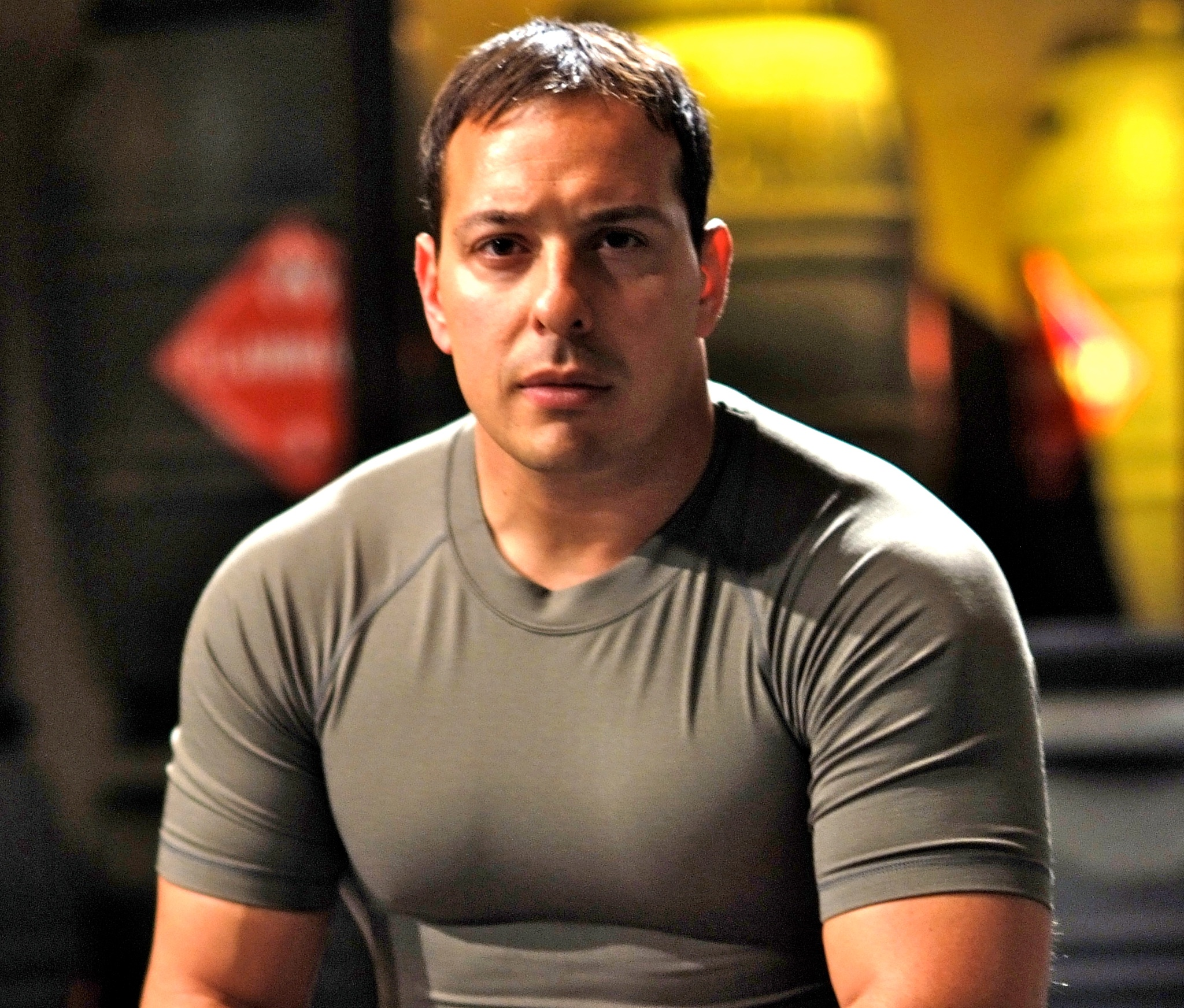 an image of Amir Perets